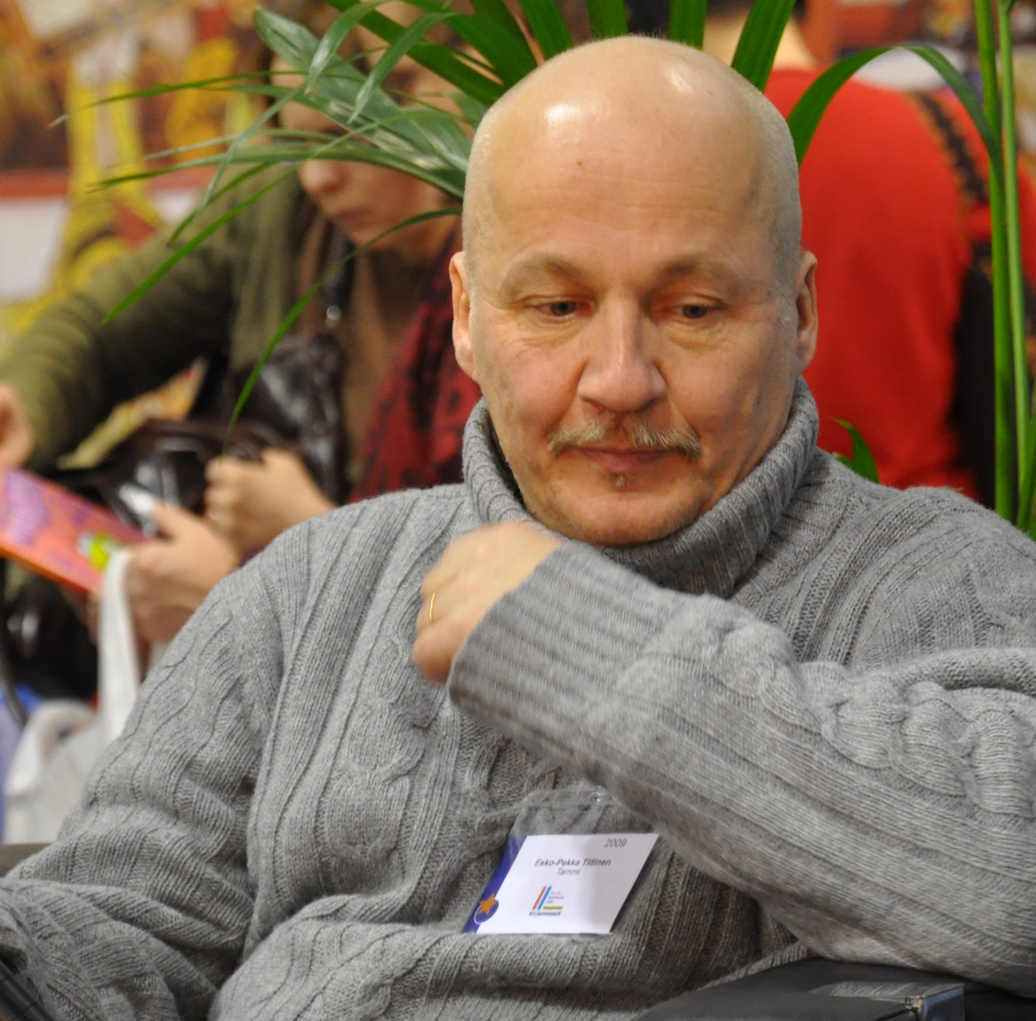 Finnish writer Esko-Pekka Tiitinen at the Tampere Book Fair 2009.